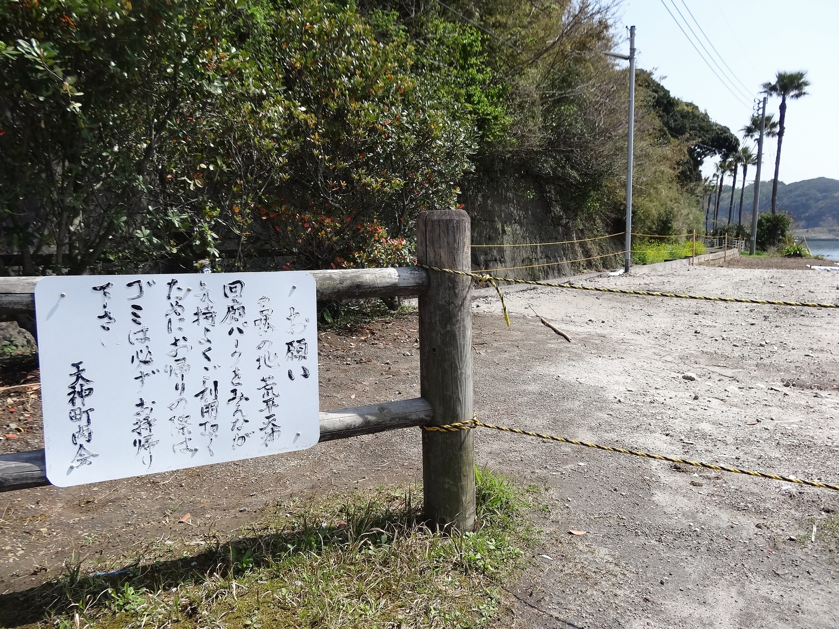 The Ruin of Arahira Rail Station in Kanoya City, Kagoshima Prefecture, Japan.